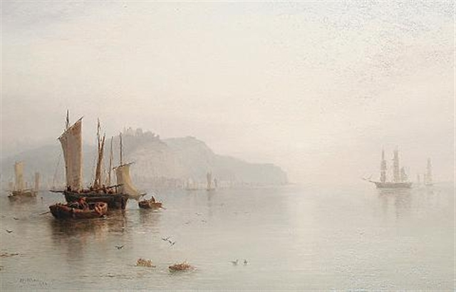 "Off Hastings, sunrise", oil on canvas, 20.2 x 30.1 in. / 51.4 x 76.5 cm.